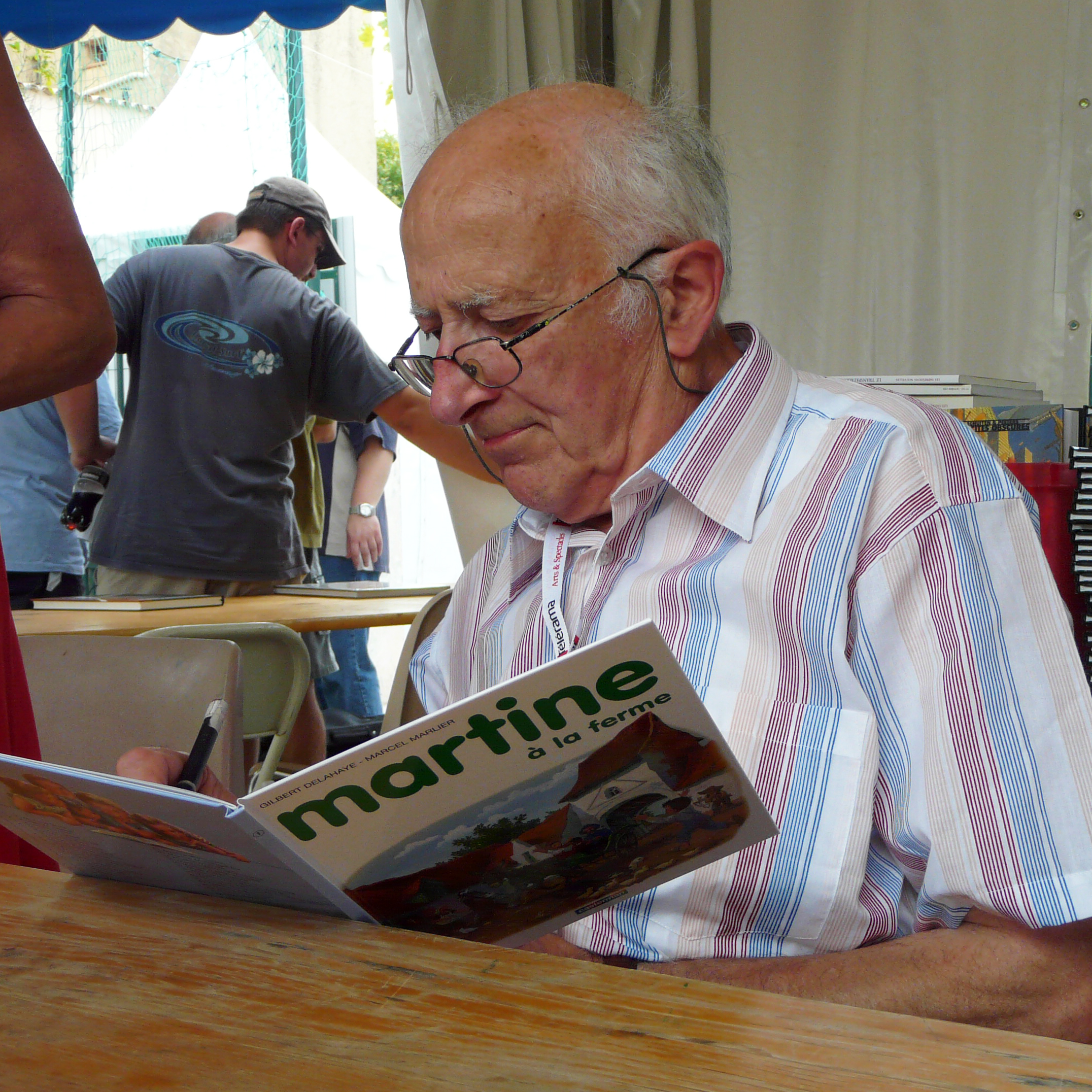 Photographs taken during the International Comic Festival of Sollies Ville, France